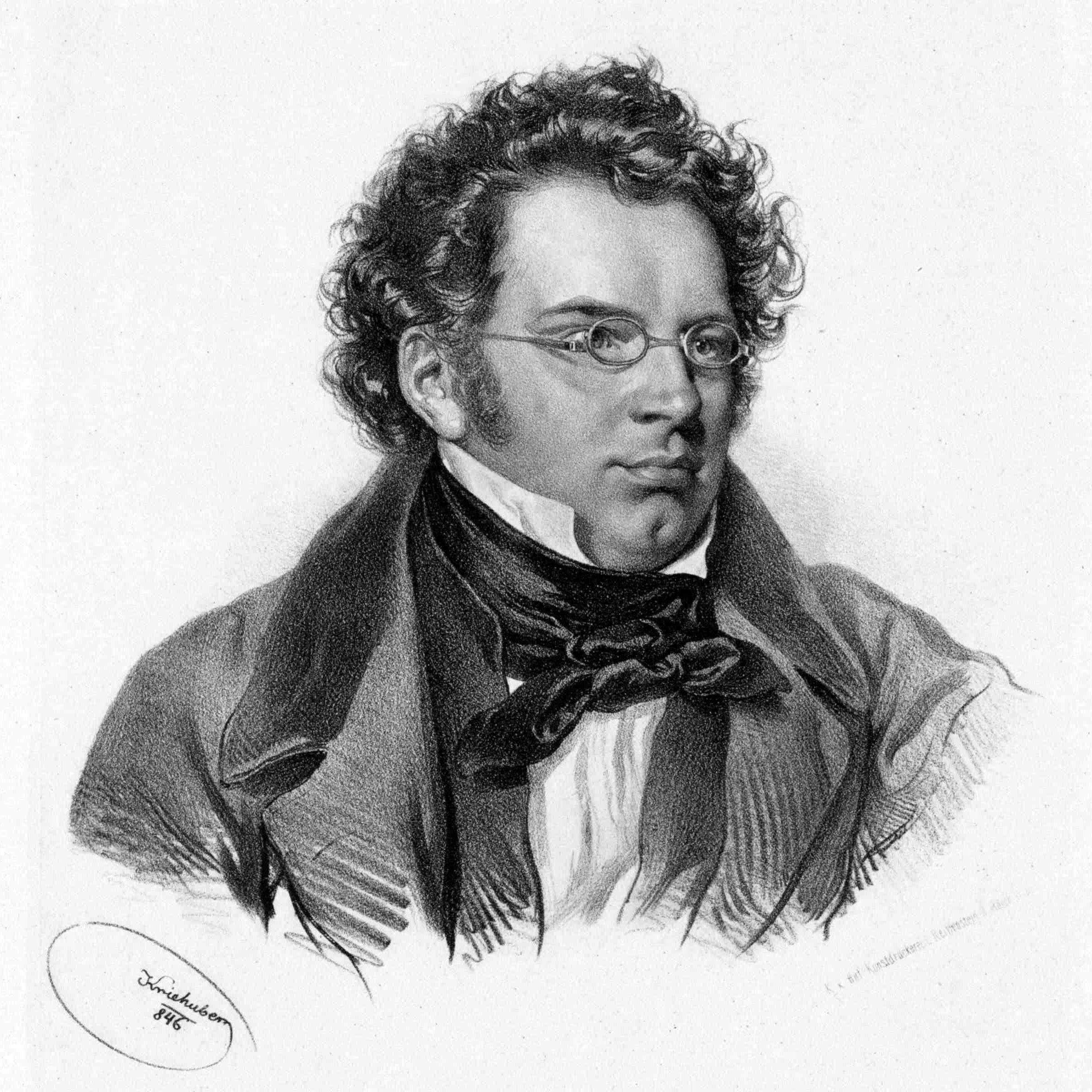 Depicted person: Franz Schubert